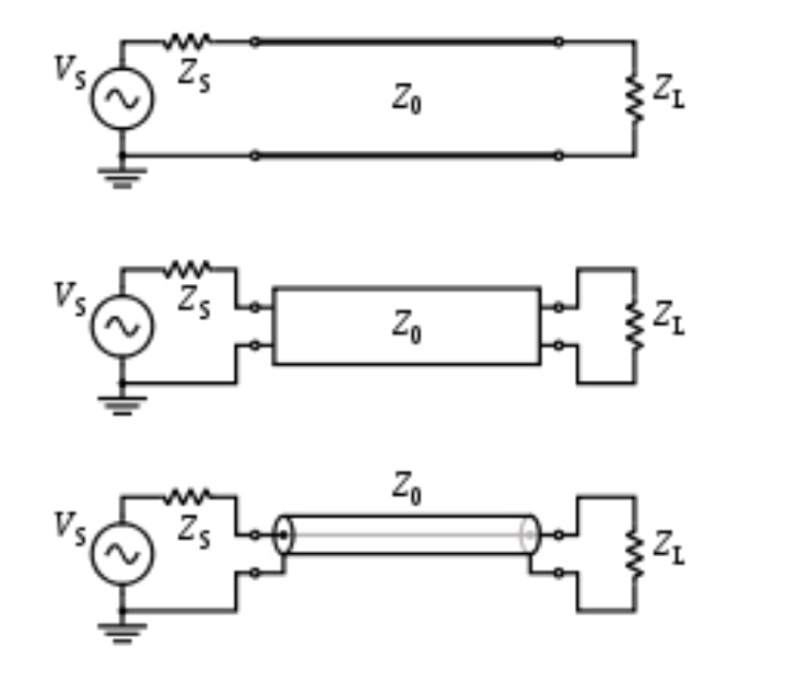 Three different graphics for an electrical transmission line.